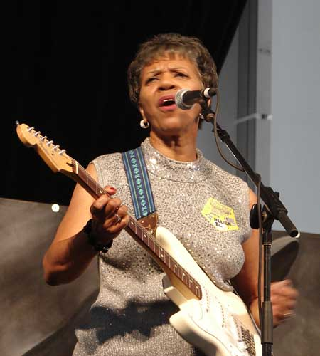 Barbara Lynn at the New Orleans Jazz & Heritage Festival (SoCo Blues Tent)